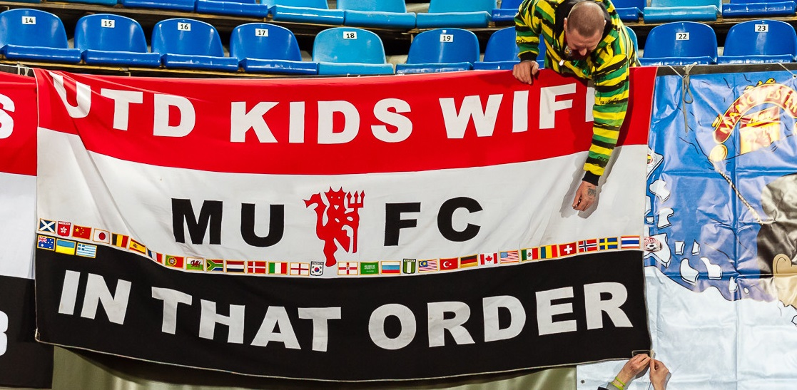 Manchester United F.C. banner